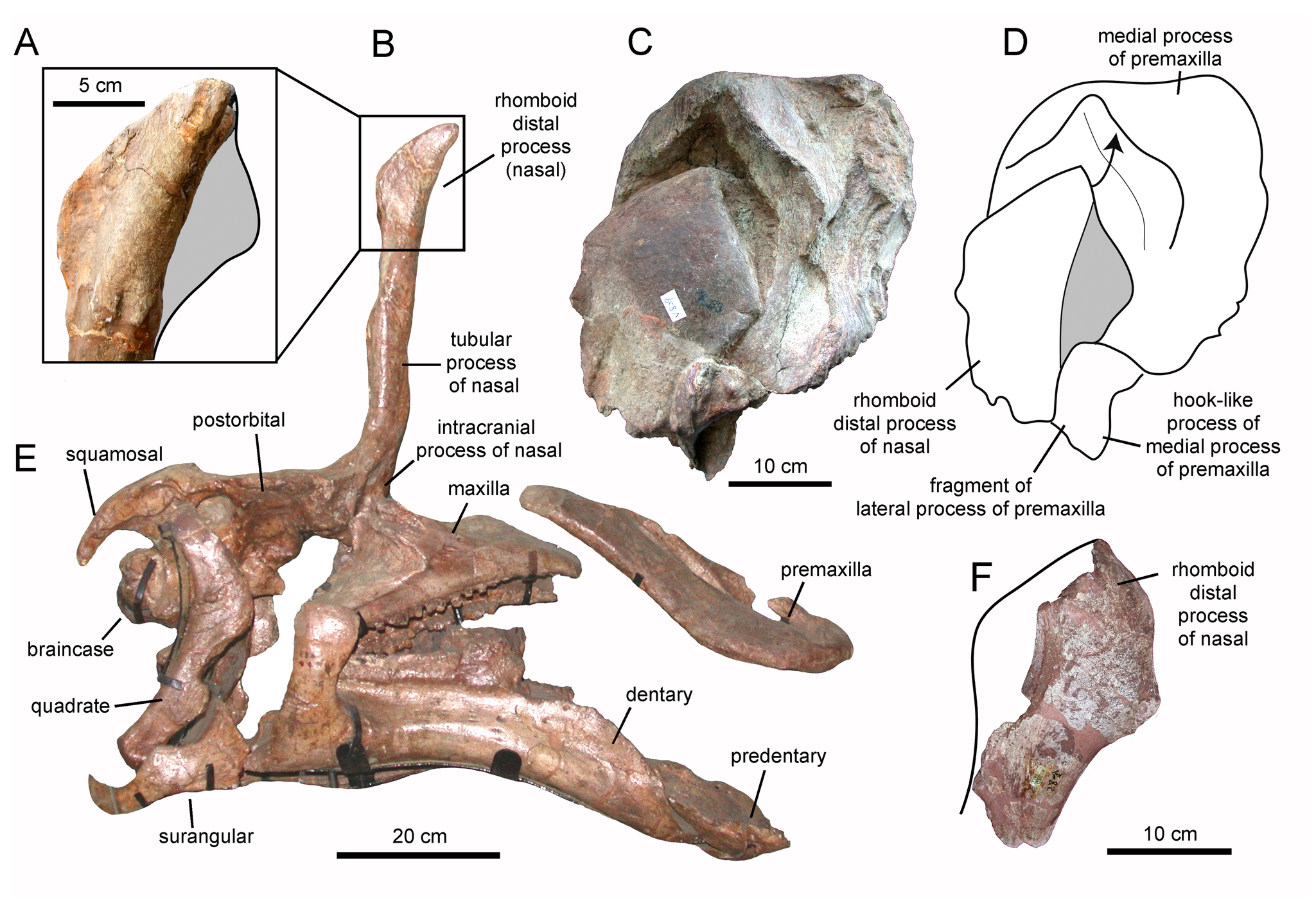 Rhomboid distal nasal process of the crest of Tsintaosaurus spinorhinus. A. Partial distal nasal process of IVPP V725 in right lateral view. B. Lateral view of composite skull (reversed). C. partial premaxillonasal complex of IVPP V829 in right lateral view. D. Line drawing of (C) showing nasal-premaxilla articulation, and the displacement (arrow) experienced by the distal nasal process relative to its articular position. E. Mounted holotype skull (IVPP V725) of T. spinorhinus in left lateral view (reversed). F. Partial right distal nasal process (although catalogued as IVPP V725, this element corresponds to a different specimen than the type; reversed).